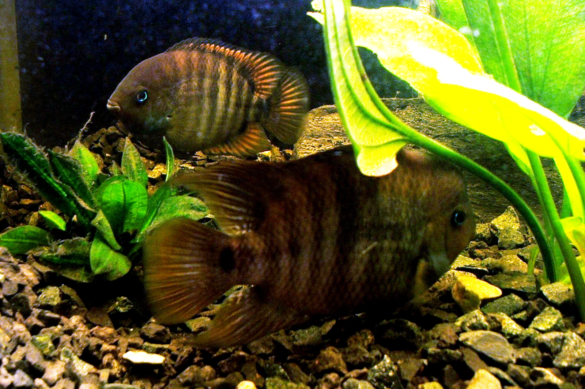 Archocentrus sajica, one pair of fish is protecting eggs